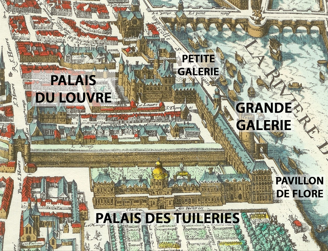 Louvre-Tuileries 1615 FR